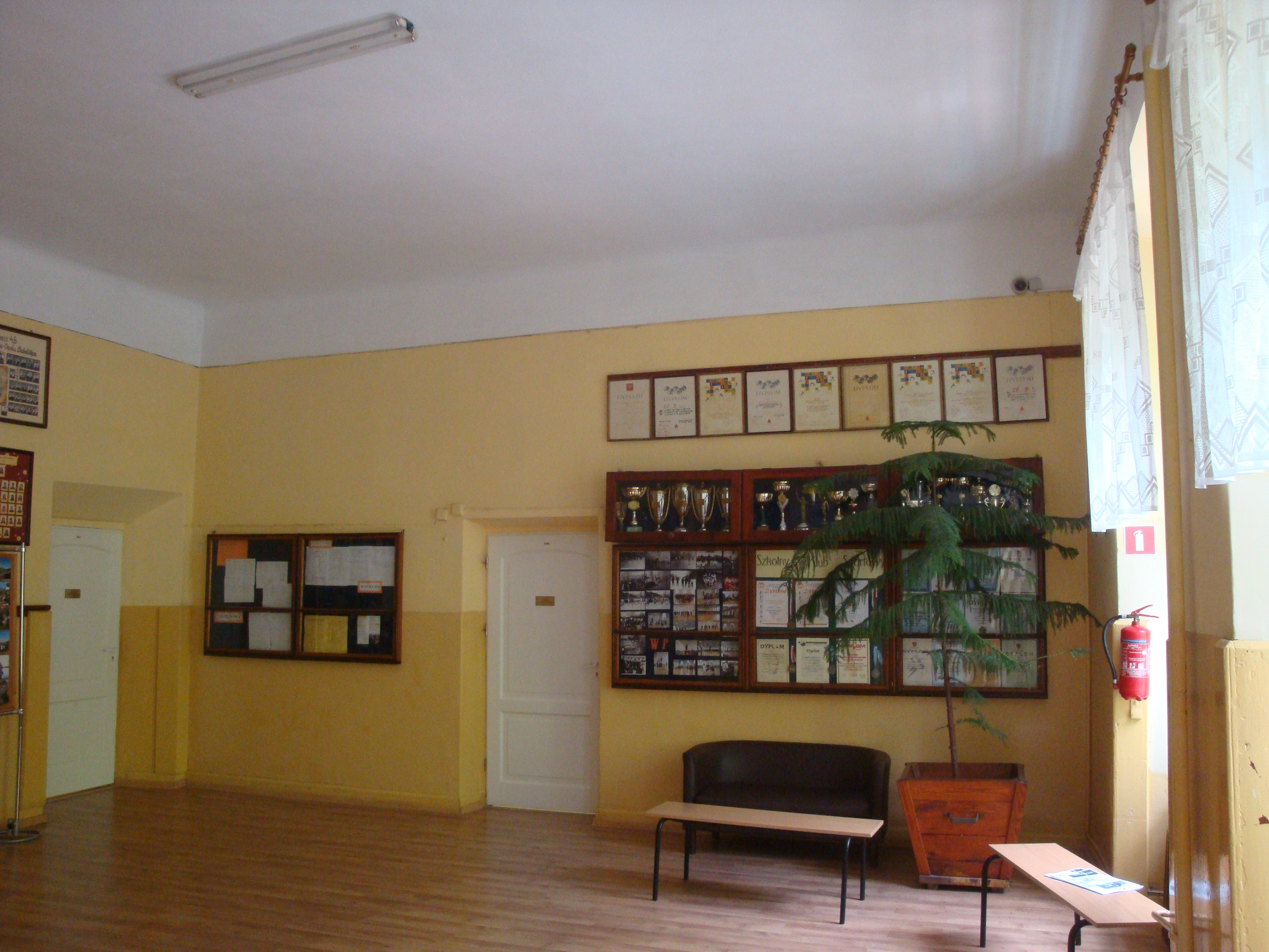 The Lubomirski Palace in Opole Lubelskie, Poland. Presently lyceum